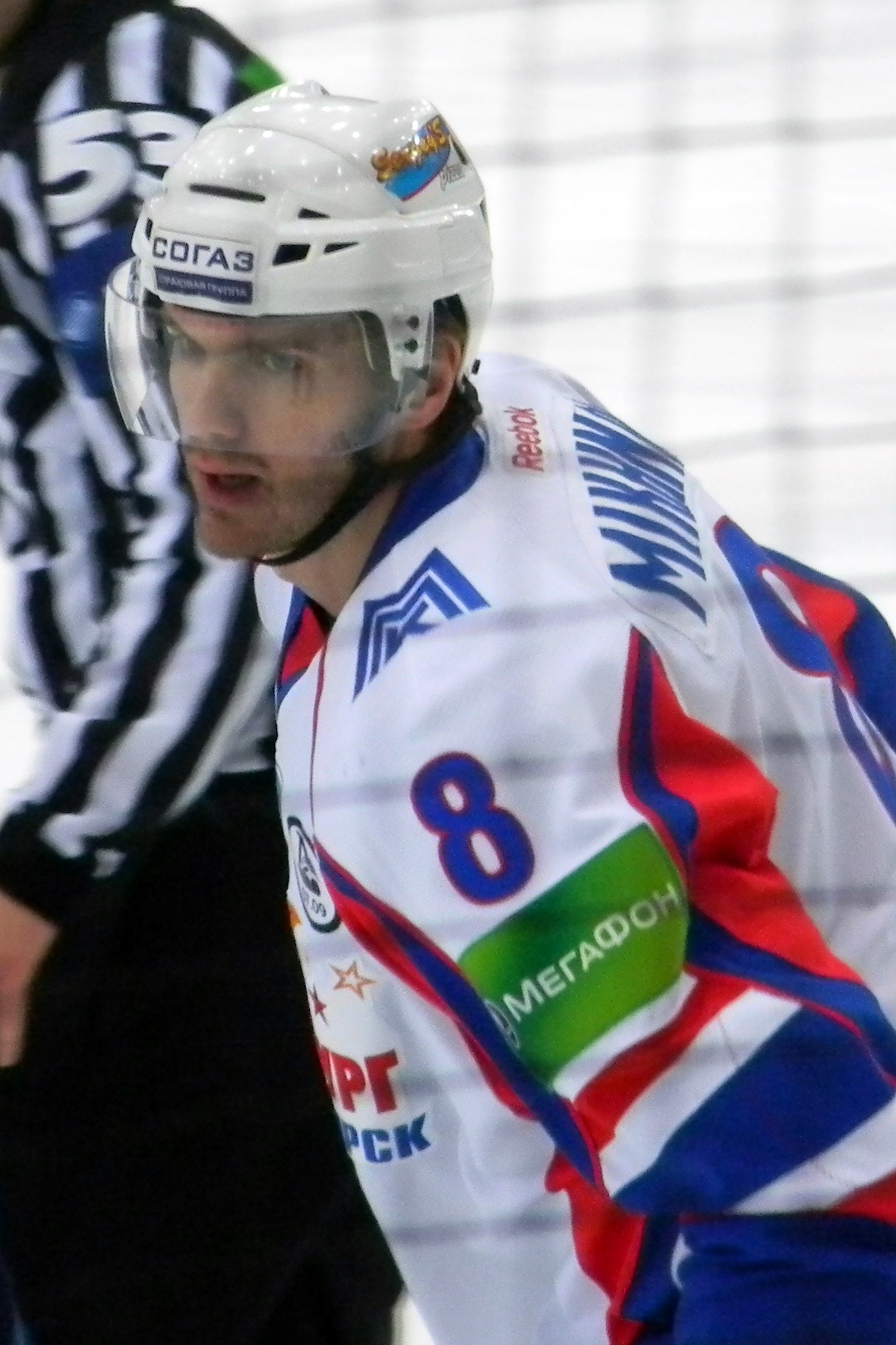 Alexei Mikhnov, an ice-hockey player from Metallurg Magnitogorsk in the game against Torpedo Nizhny Novgorod on 16th December, 2012